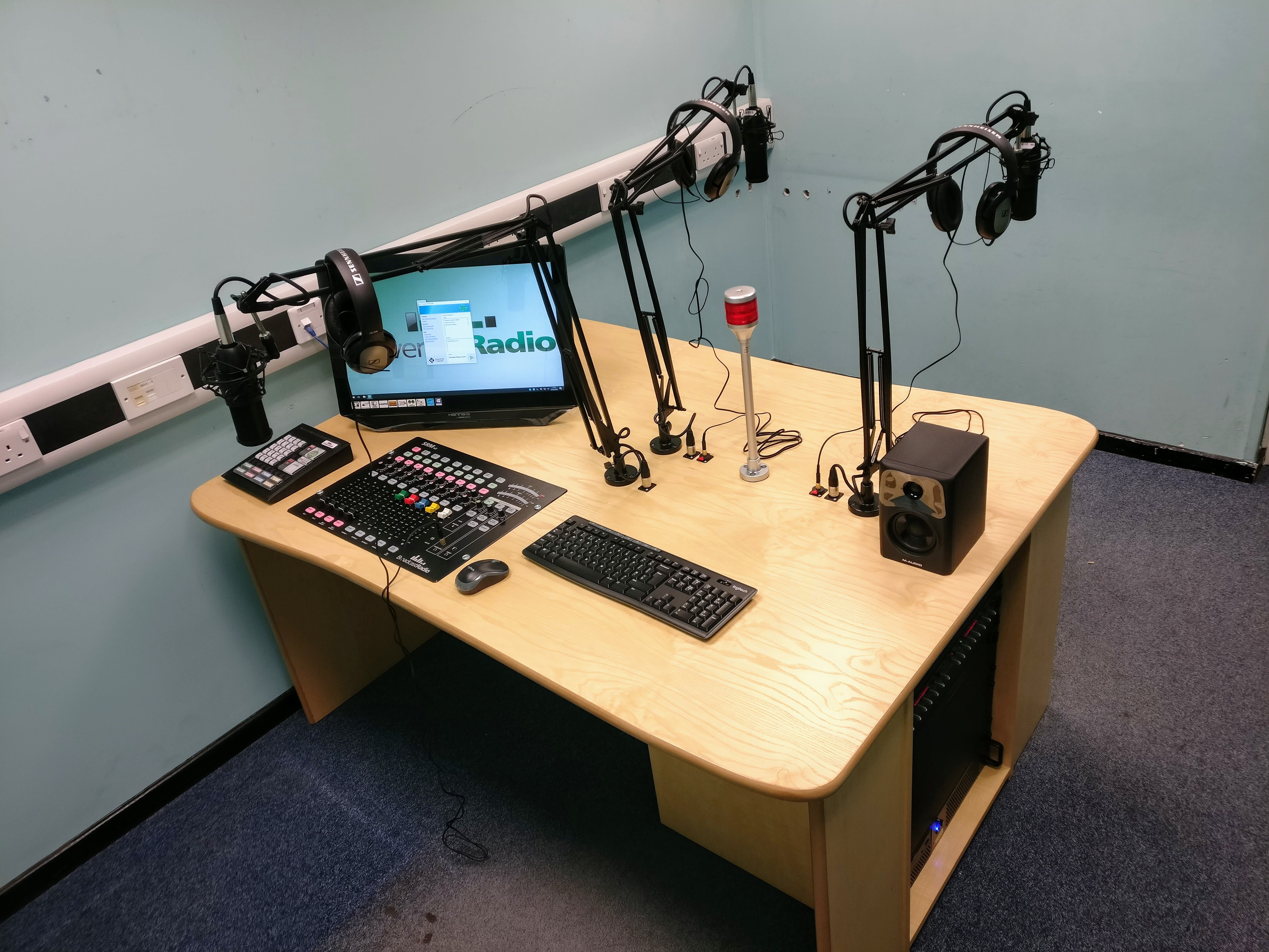 An image of the newly installed studio hardware in late March 2018. The previous desk - a Sonifex S2 - took up far more space in the studio.